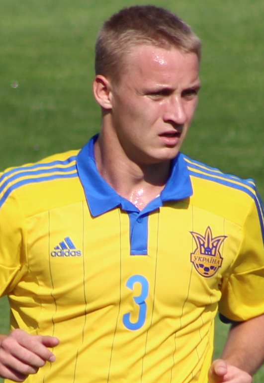 Oleksandr Svatok